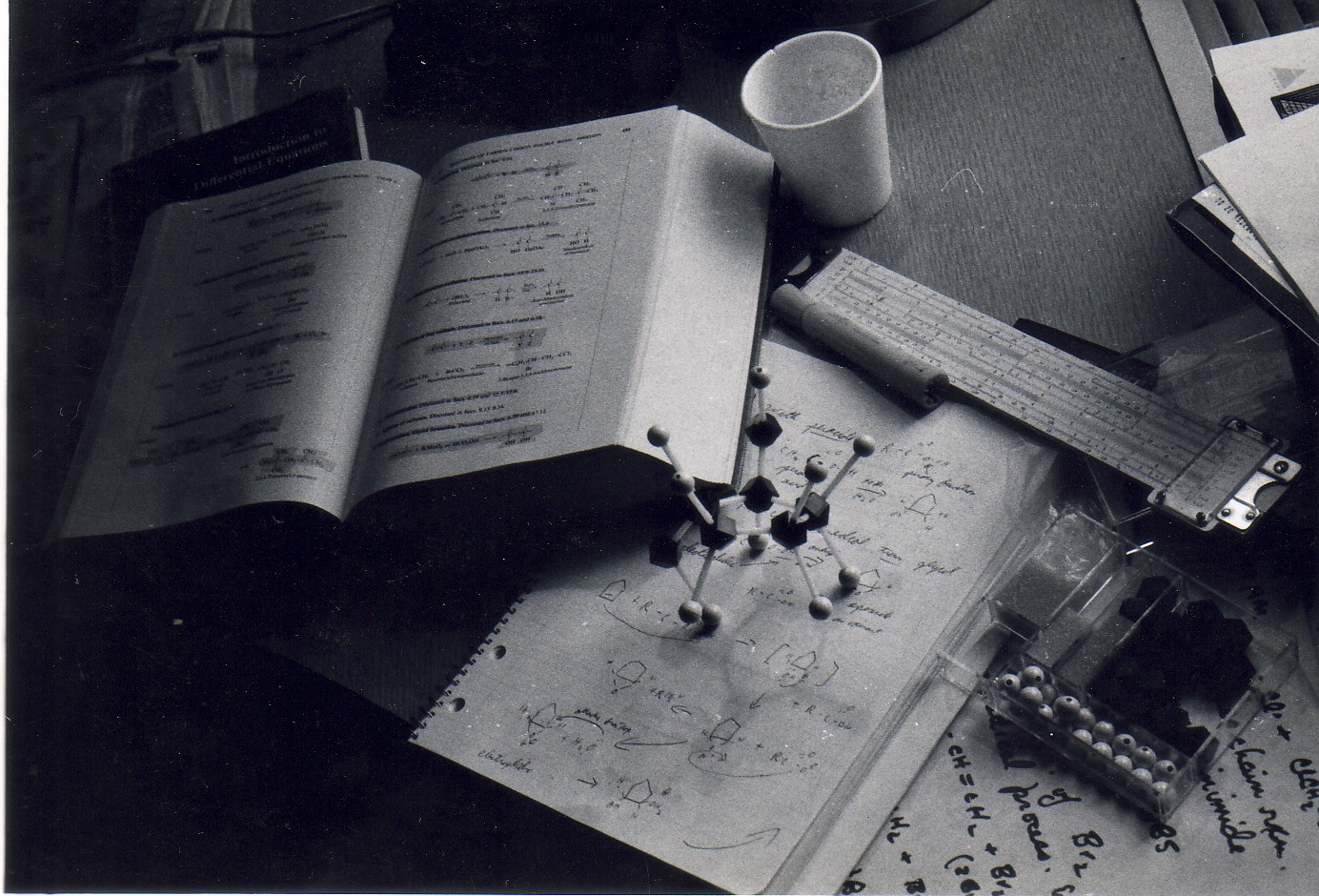 Northwestern University - November 1973 - Organic Chemistry